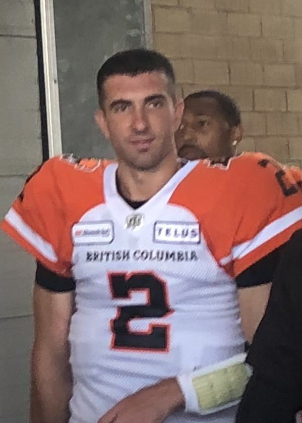 Danny O'Brien, quarterback for the BC Lions.